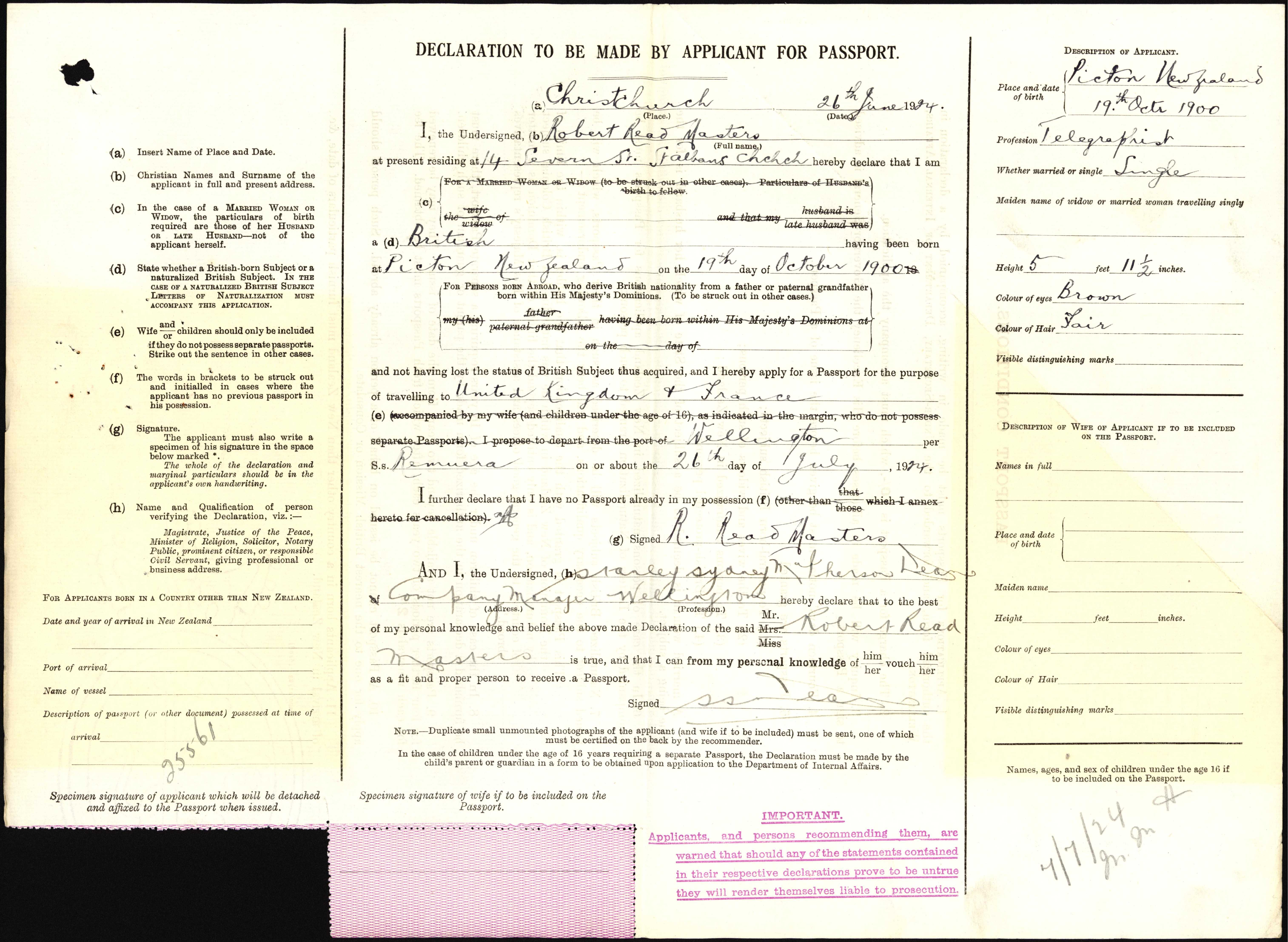 ACGO 8333 IA1 1349 / 15/11/17721 Robert Read Masters passport application file (1924)